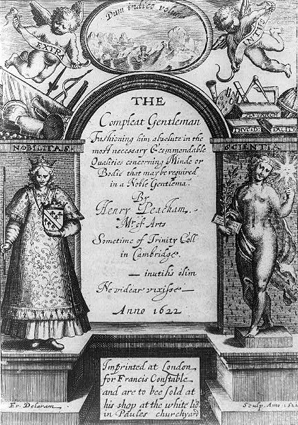 Title page for "The Compleat Gentleman" by Henry Peacham (1576-1643), with elaborate border showing figures of "Nobilitas" and "Scientia". Engraving by Francis Delaram (1590-1627).